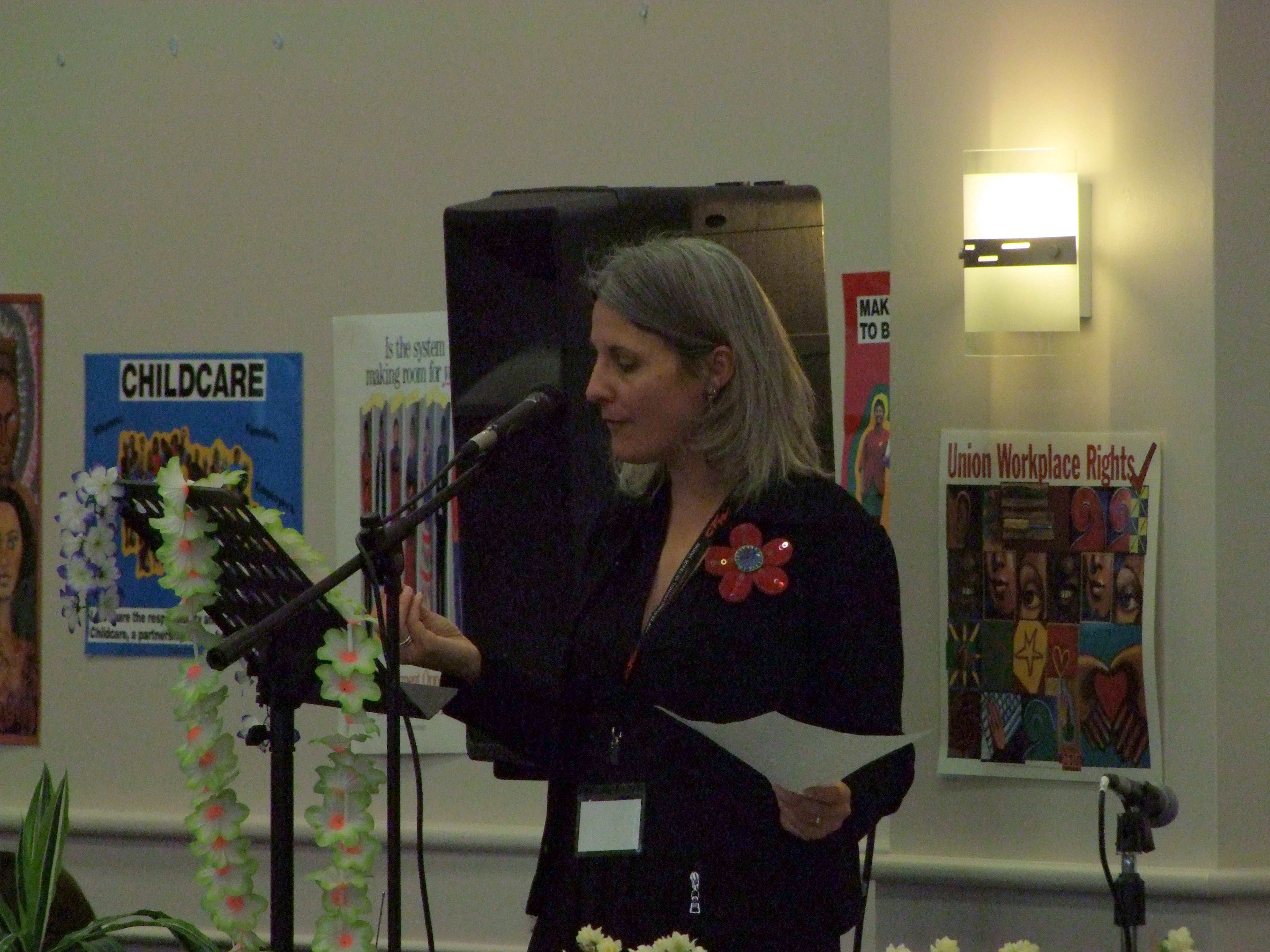 Laila Harre - CTU biennial women's conference 2009